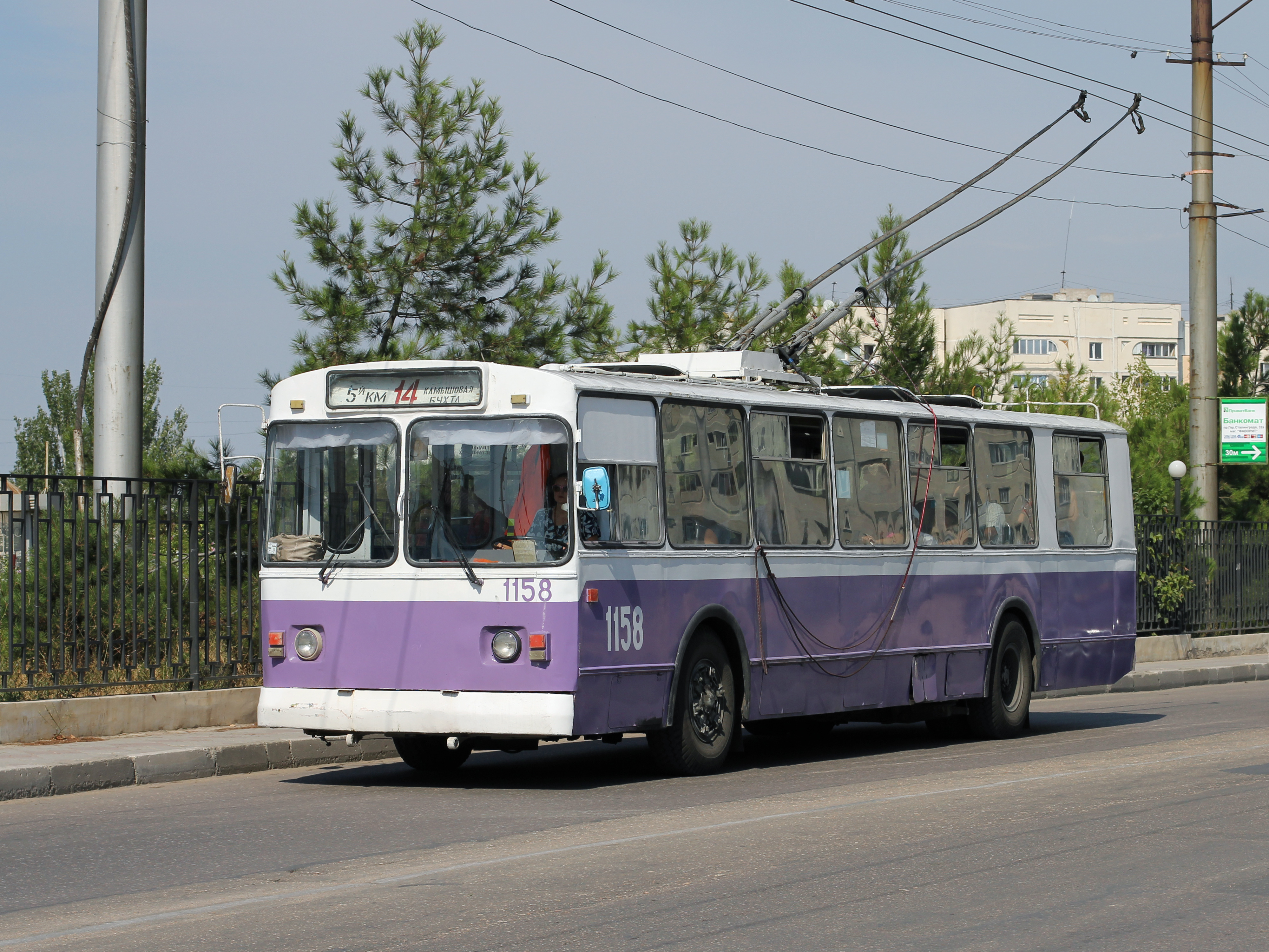 Trolleybus ZiU-9 in Sevastopol.